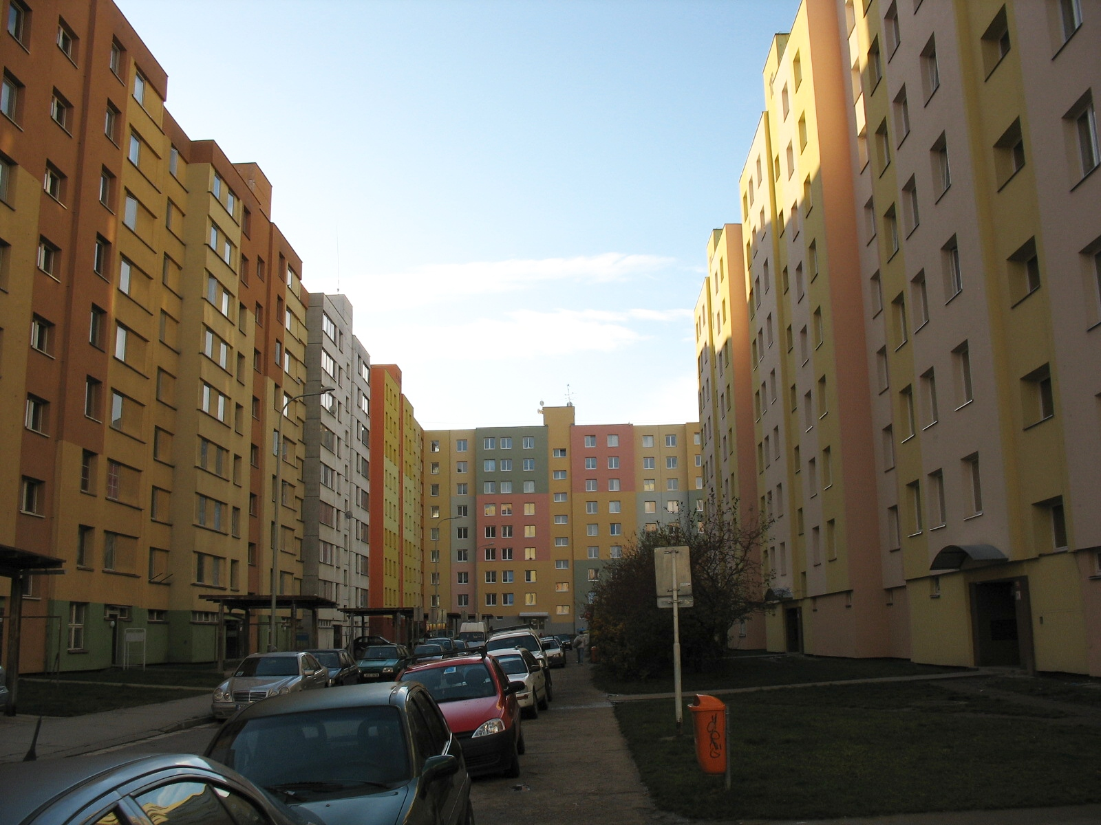 V. Volfa Street in České Budějovice, Czech Republic